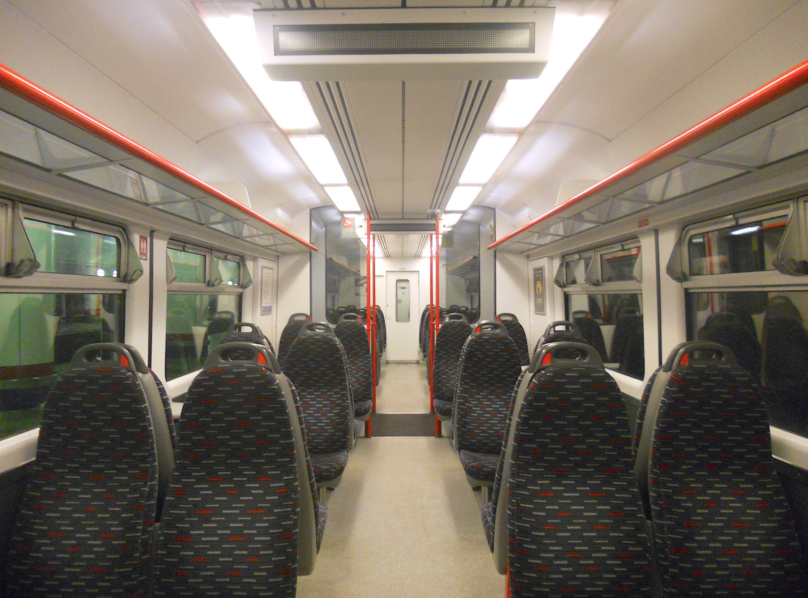 The interior of refurbished Standard Class accommodation from a Greater Anglia Class 317/6